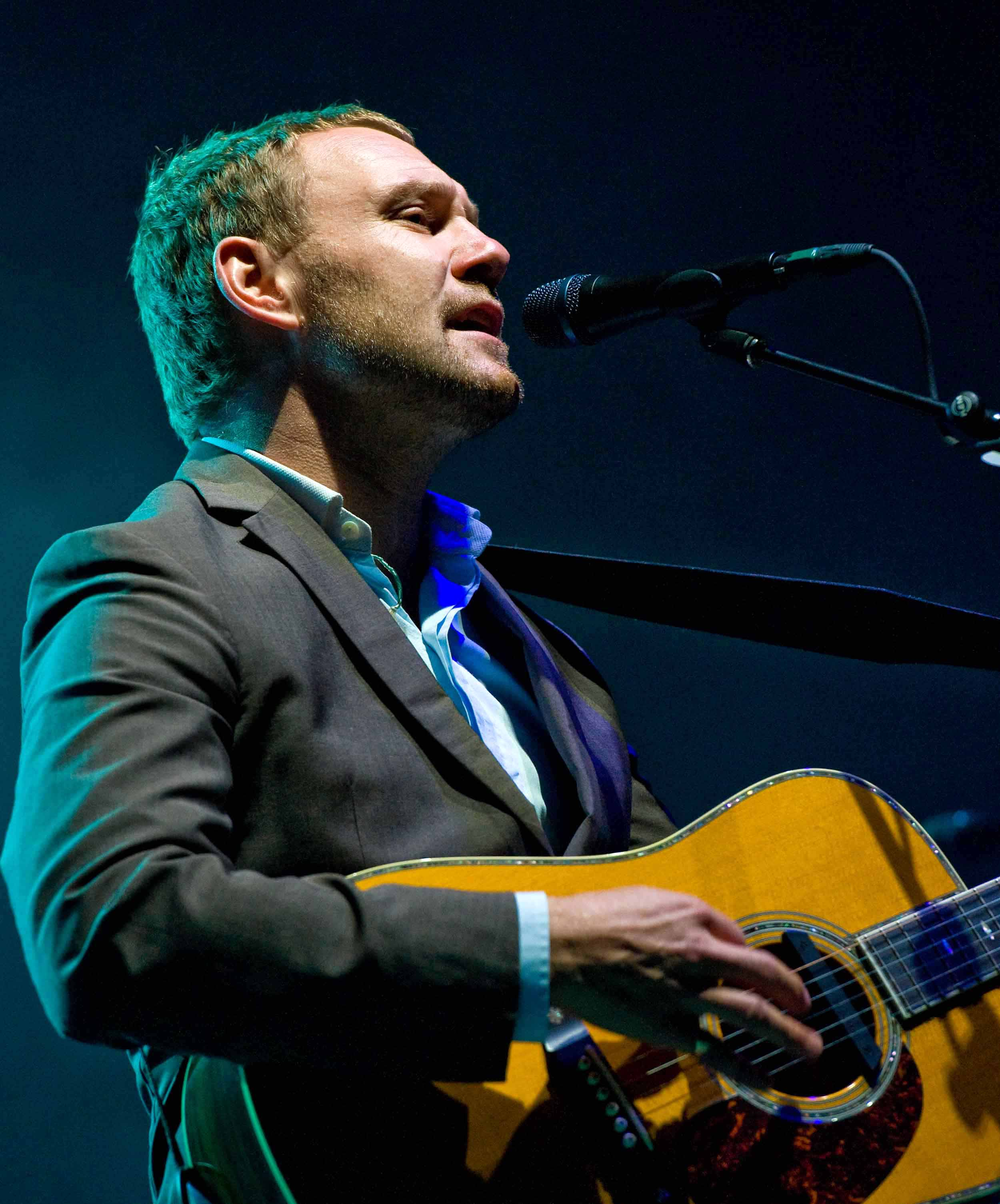 David Gray performs at Marymoor Park in Redmond, WA (east of Seattle) 9-12-10